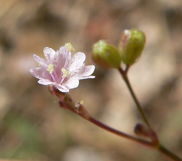 Boerhavia coulteri near highway 160 where the Bird Spring Range meets it, about 10km west of 159/160 junction, Spring Mountains, southern Nevada (elev. about 1200 m)